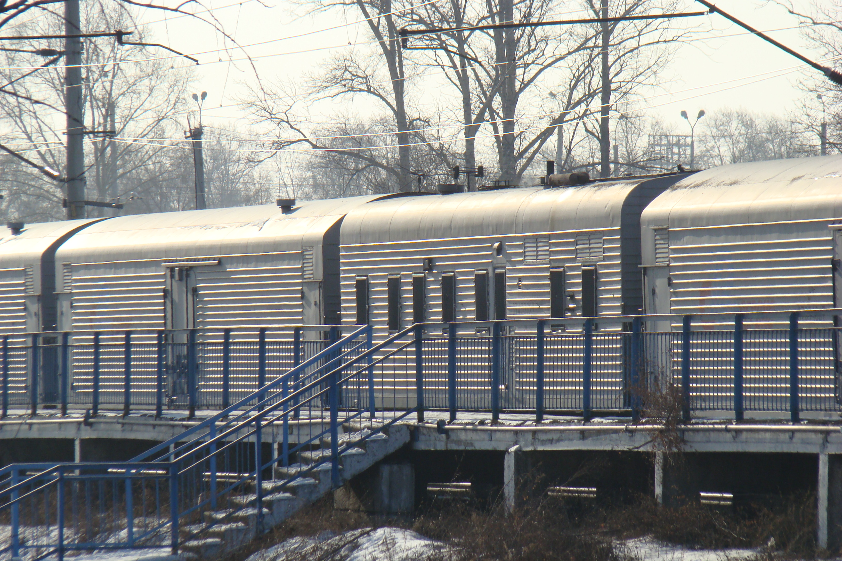 Group refrigerator rail cars: in the middle - diesel power station and refrigerating equipment; on the skirts - refrigerator cars